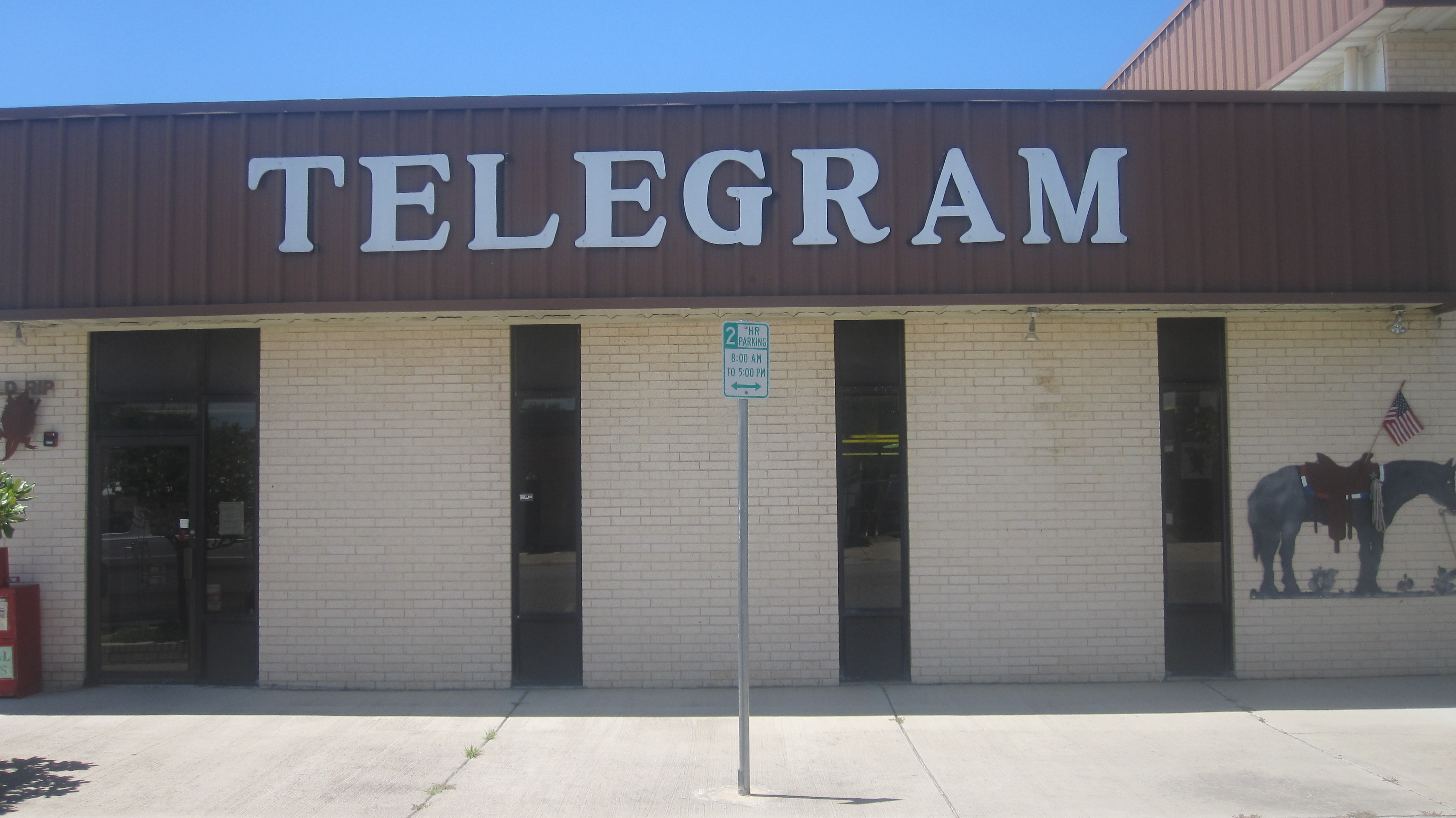 I took photo with Canon camera in Eastland, TX.